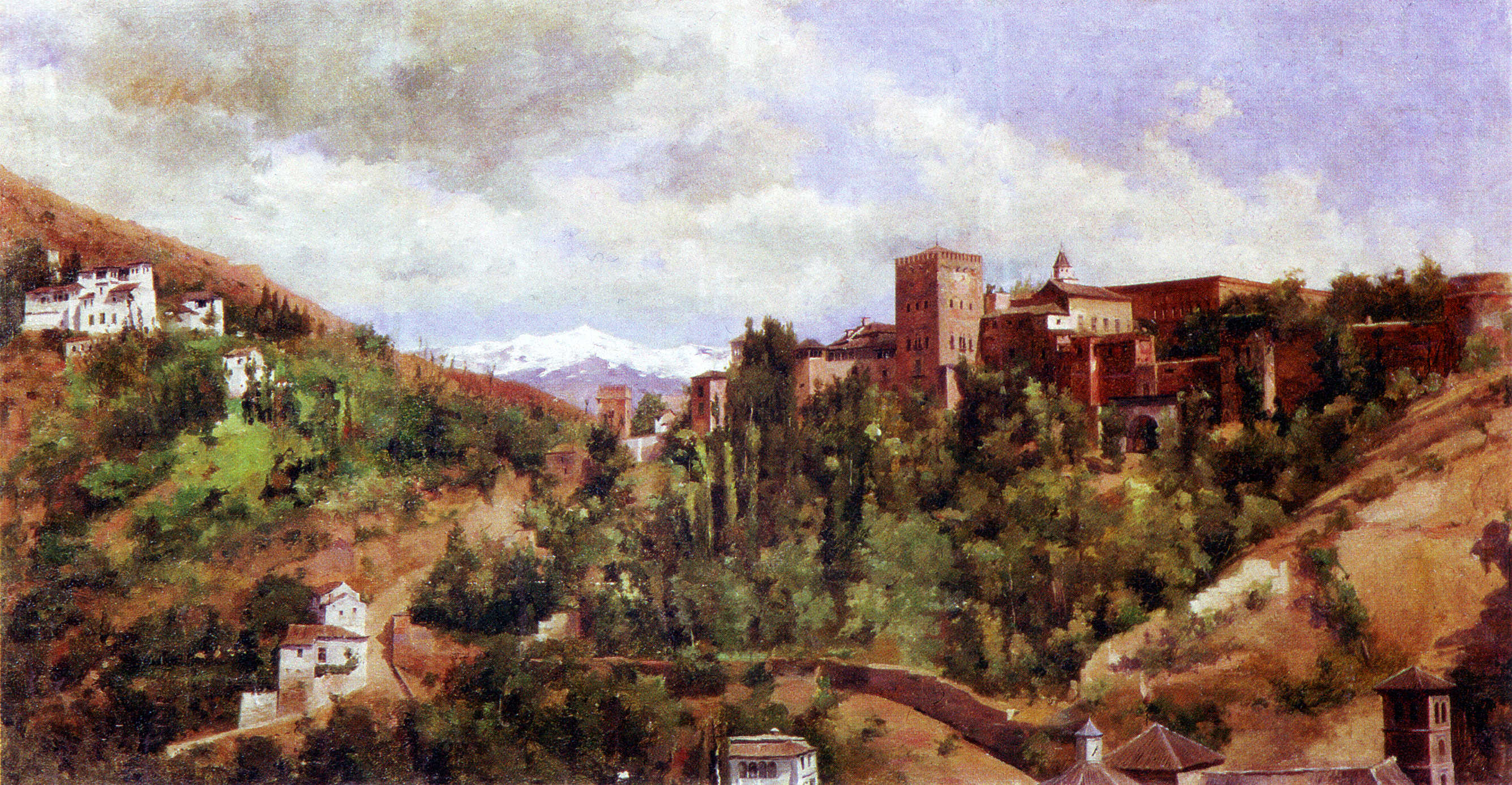 Alhambra and Cuesta de los Chinos